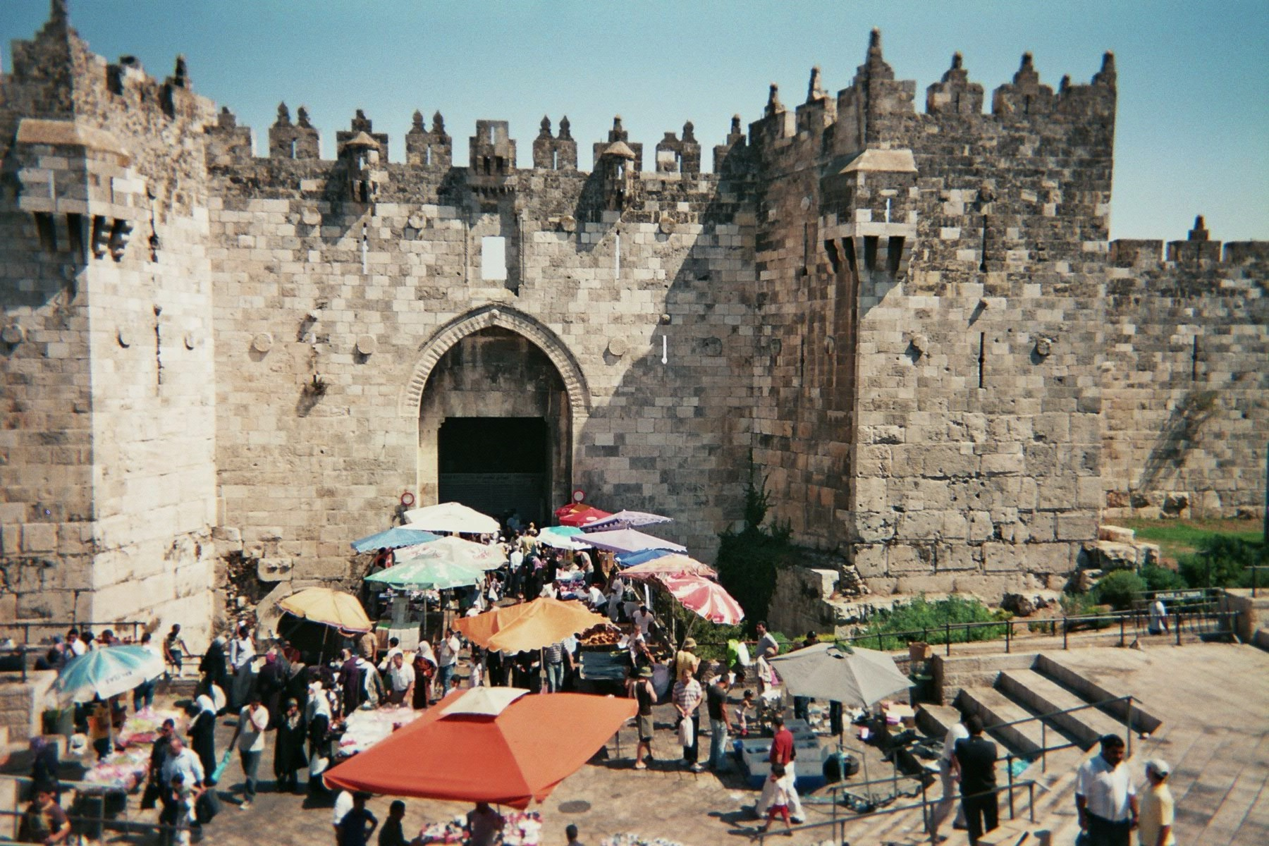 Old Jerusalem Damas Gate Market